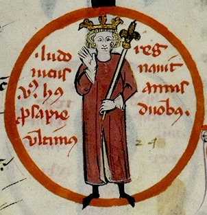 Louis V of France